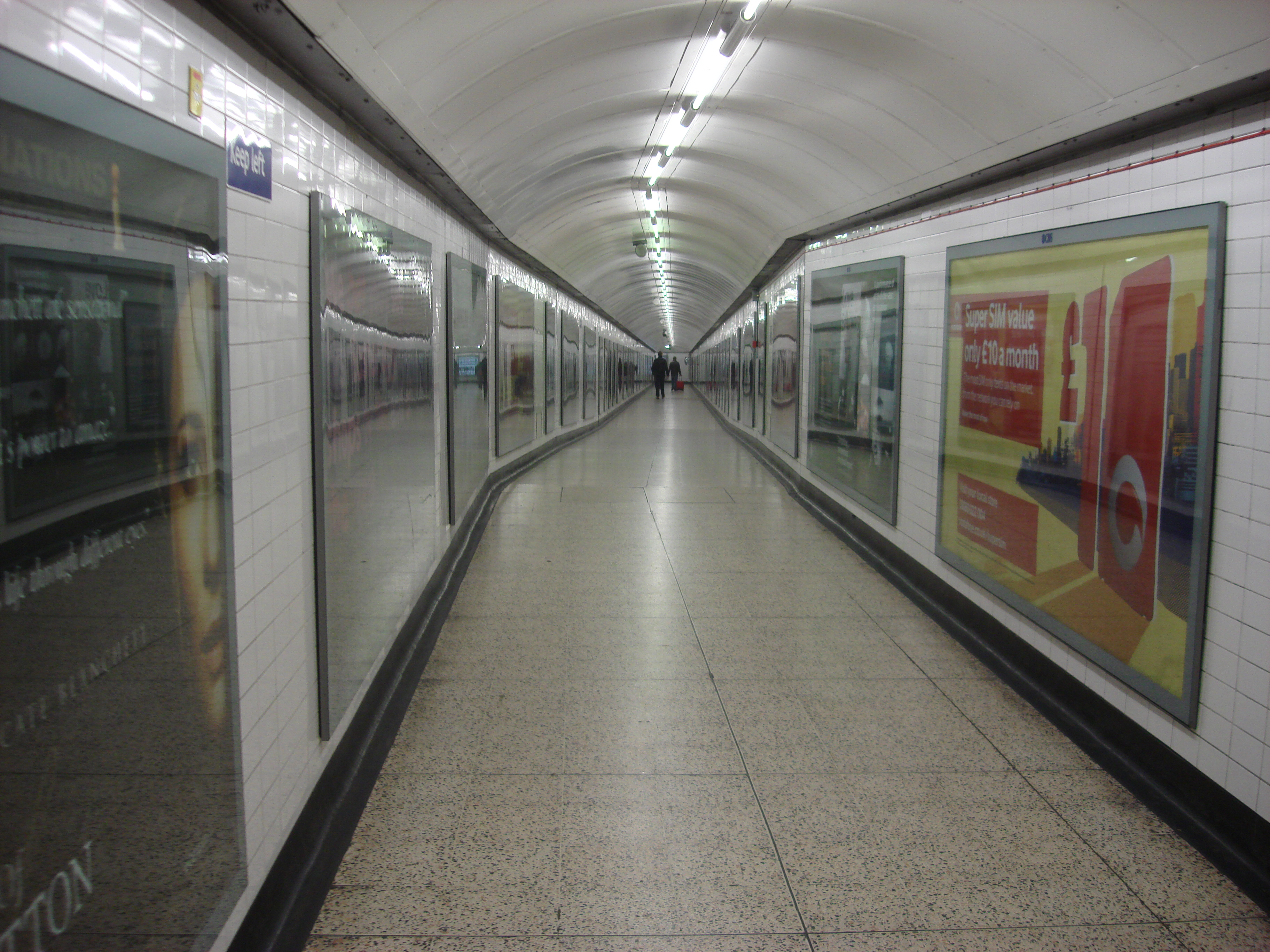 Charing Cross tube station, passageway between Northern line and Bakerloo line platforms, Originally the Bakerloo line and Northern line platforms at Charing Cross were two separate stations, This long passageway was constricted to link the two station and allow interchange between the two lines.